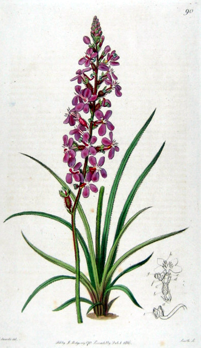 Botanical print of Stylidium graminifolium from The Botanical Register: Consisting of Coloured Figures of Exotic Plants, Cultivated in British Gardens. (print #90).